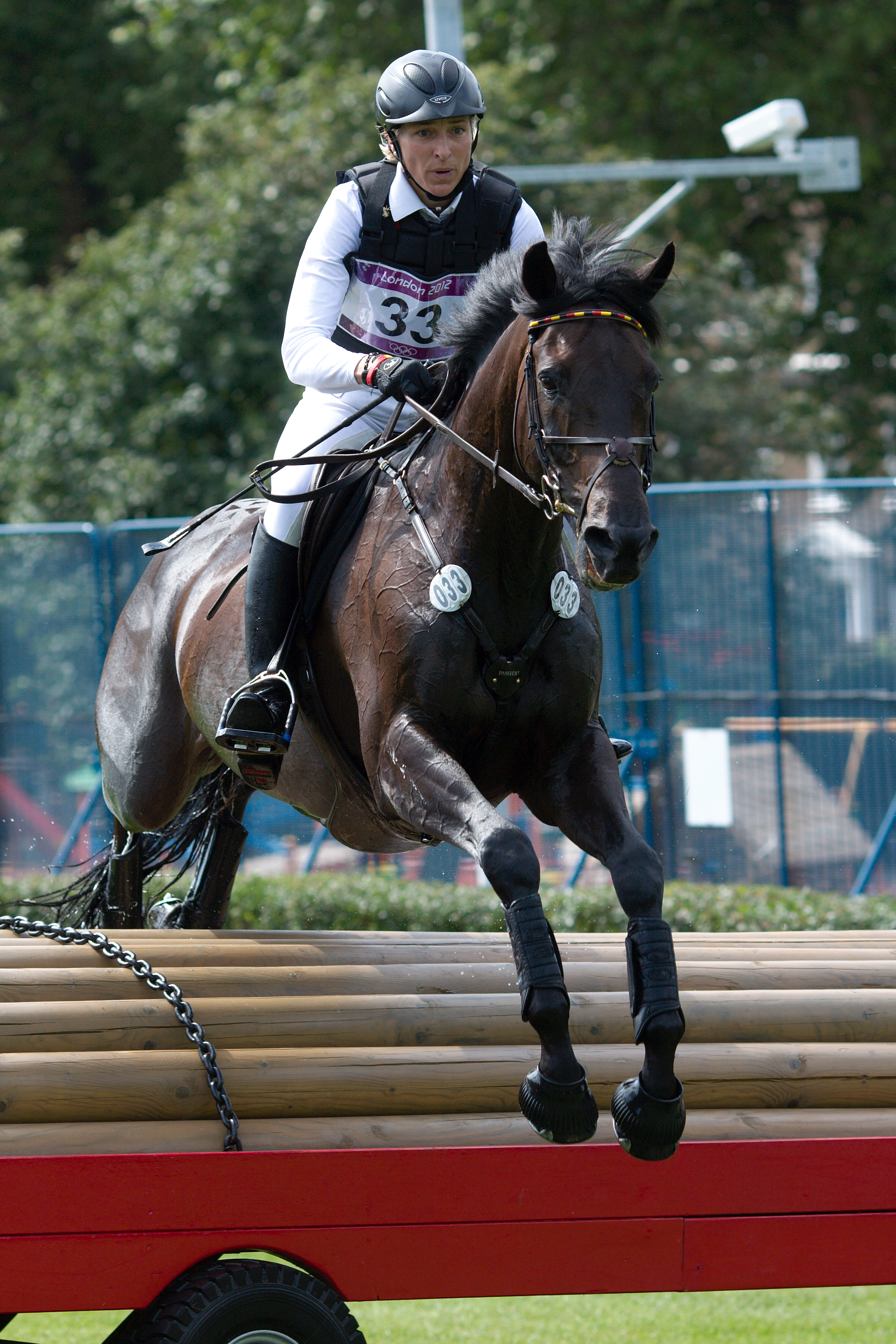 Ingrid Klimke and Butts Abraxxas, competing for GER, at fence 19, during the cross-country phase of the Eventing during the 2012 Olympic Games in Greenwich Park, London.